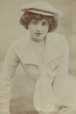 Portrait of photographer Rita Martin by her sister Lallie Charles, c. 1907